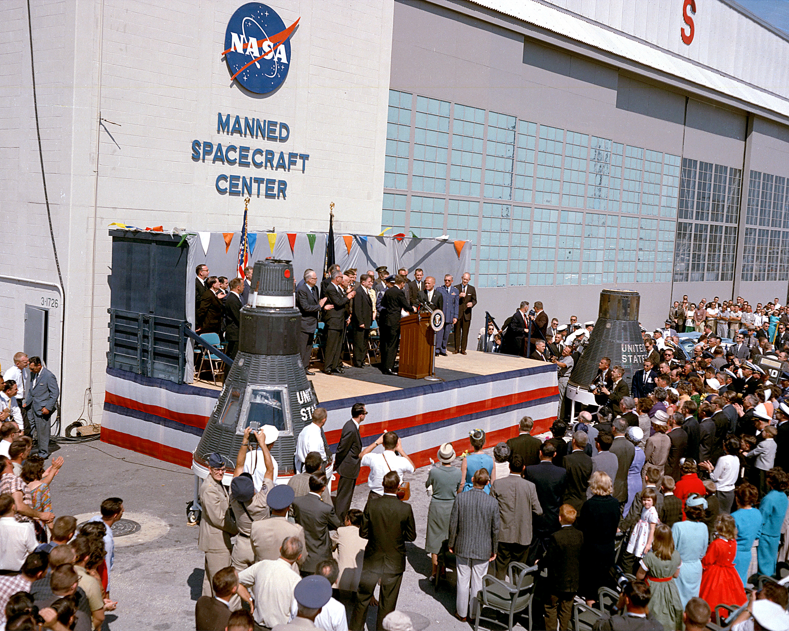 Astronaut John Glenn, Jr. is honored by President John F. Kennedy after his historical first manned orbital flight. The ceremony is being held at Hanger S at Cape Canaveral, where the Manned Spacecraft Center had its facilties; the MSC would open its permanent headquarters in Houston in September 1963.